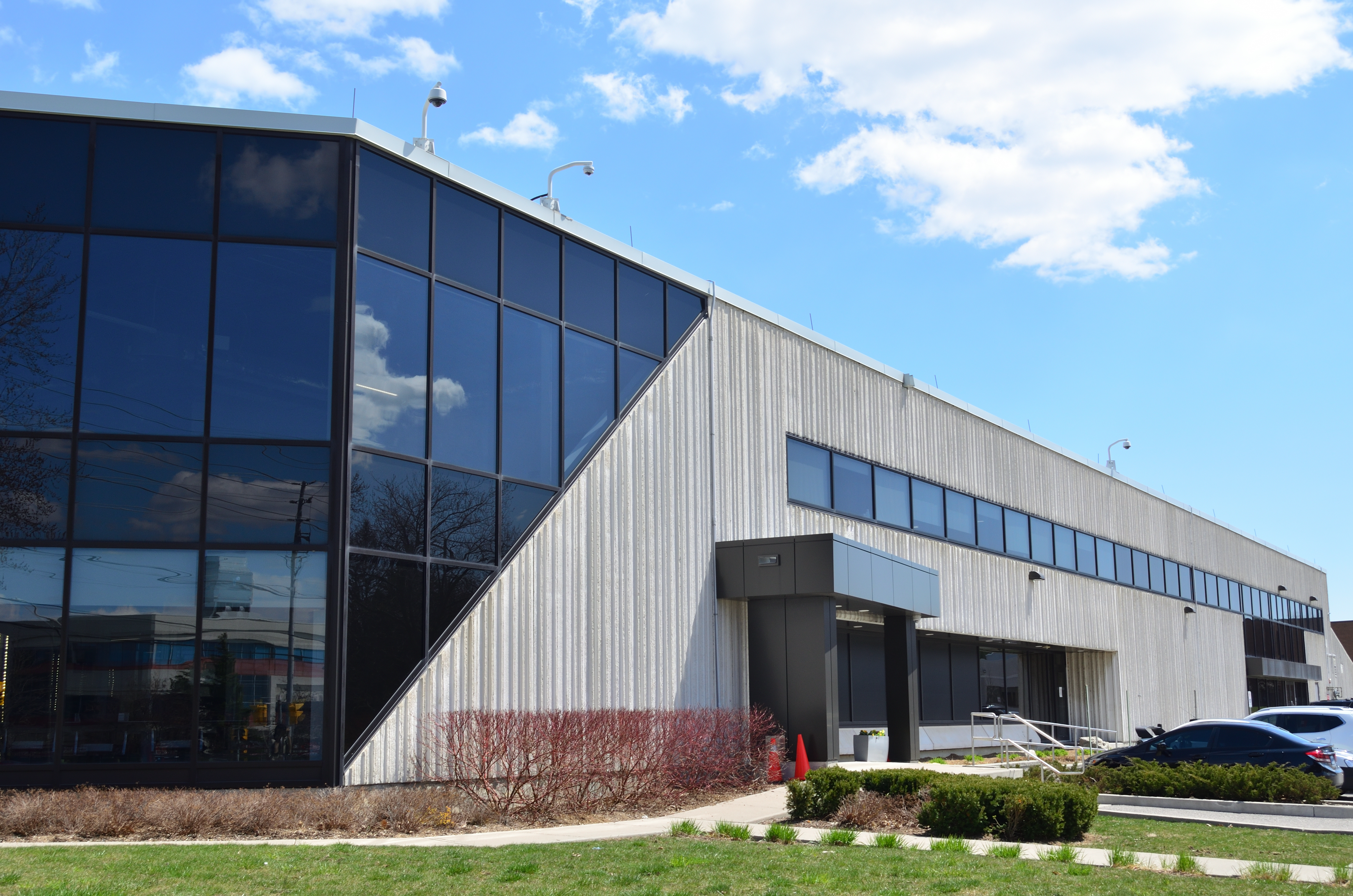 Digital Realty datacenter - Address: 371 Gough Rd, Markham, ON L3R 4B6